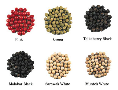 The only mean for the visual identification of the 6 variants of Pepper. These are the different types of pepper.